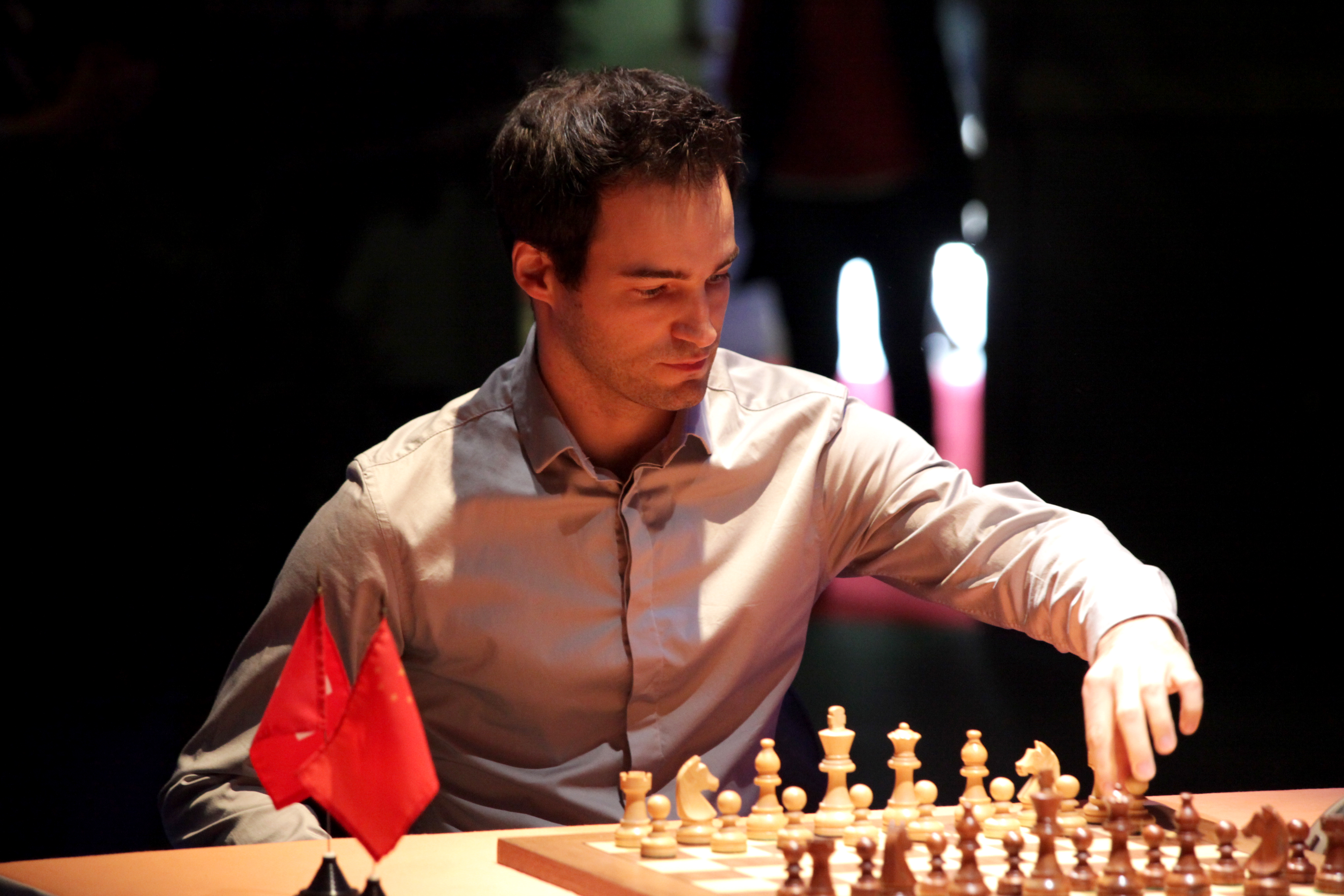 Yannick Pelletier, Cap d'Agde 2013